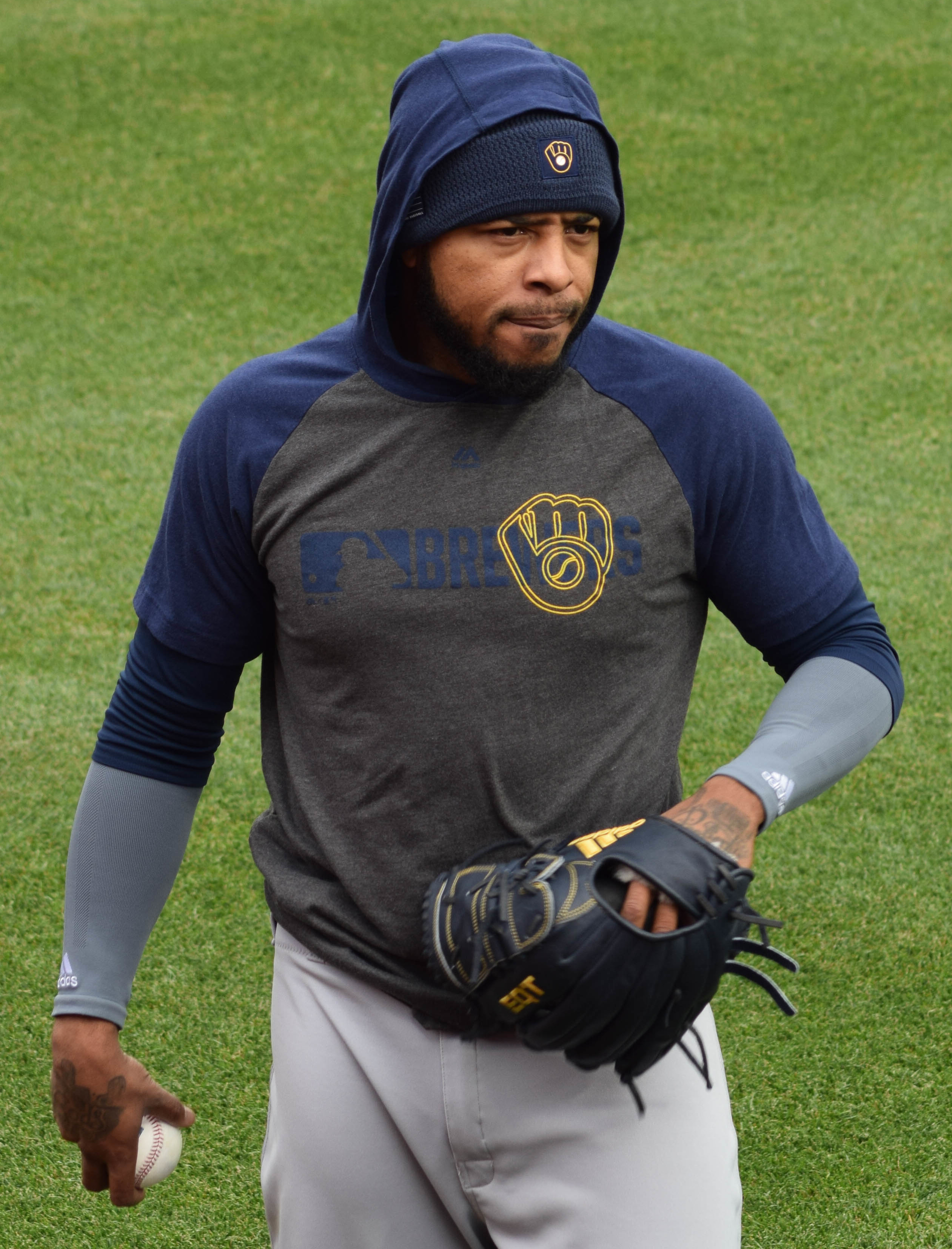 Jeremy Jeffress of the Milwaukee Brewers before a 2019 game at Citizens Bank Park in Milwaukee